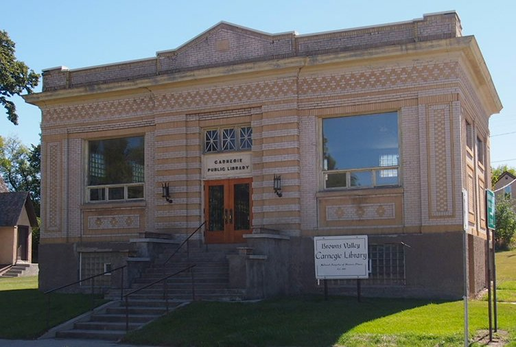 Browns Valley Carnegie Library, Browns Valley, Minnesota, USA. Viewed from the north-northwest.